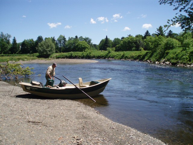 Drift Boat Fishing Guides Working The Connecticut River Near Colebrook, New Hampshire. Pictured is Bill Bernhardt, fly fishing guide.